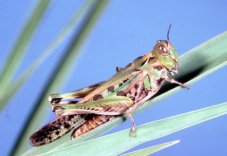 An Australian plague locust, Chortoicetes terminifera. CSIRO has developed an environmentally friendly way to control it.